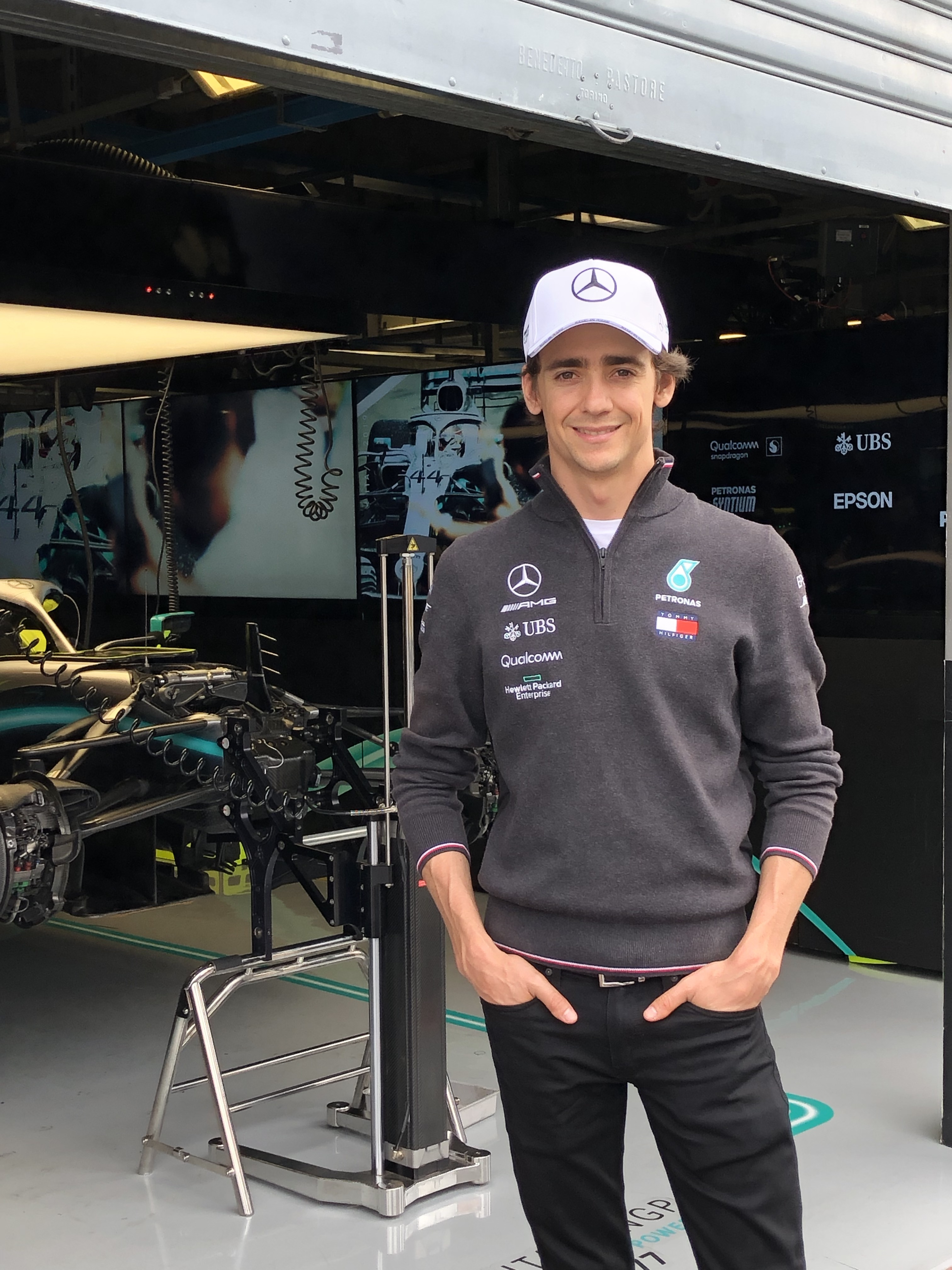 Esteban Gutiérrez en el Gran Premio de Italia 2019